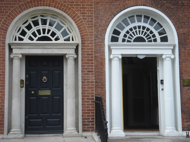 Georgian doors in Fitzwilliam Square. Dublin has a wealth of Georgian architecture, especially houses.